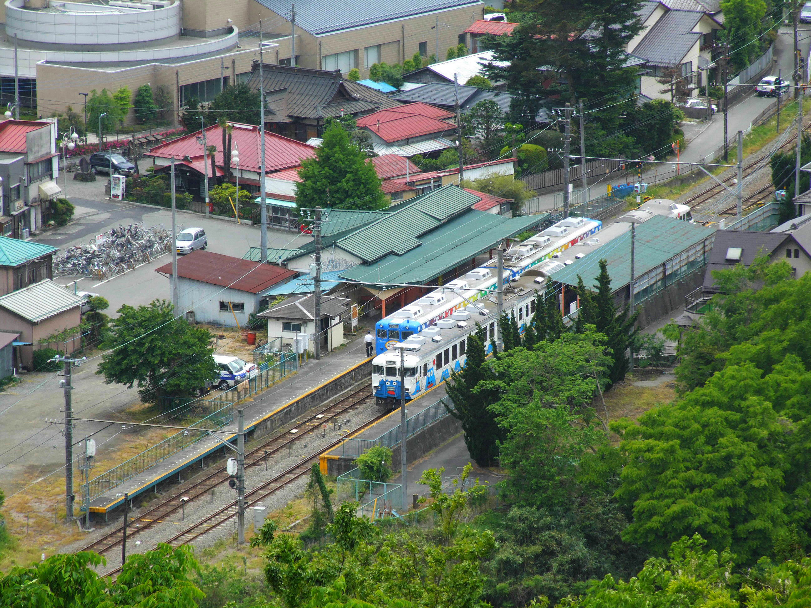 Yamuramachi Station in Tsuru, Yamanashi, Japan. Viewed from Katsuyama Castle